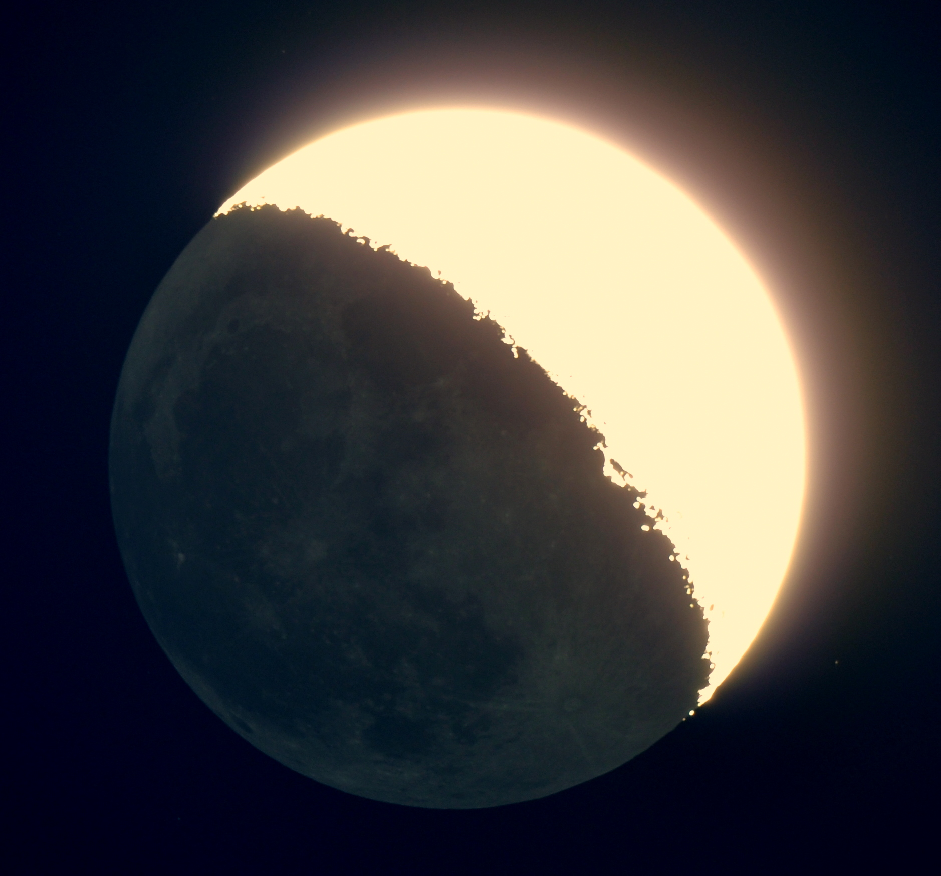 Earthshine reflecting of the Moon. Photo taken in Longjing Township,Taichung County,Taiwan on 13 September 2010, 18:39 (UTC+8) by 阿爾特斯.At that time the moon was moving nearby Libra.